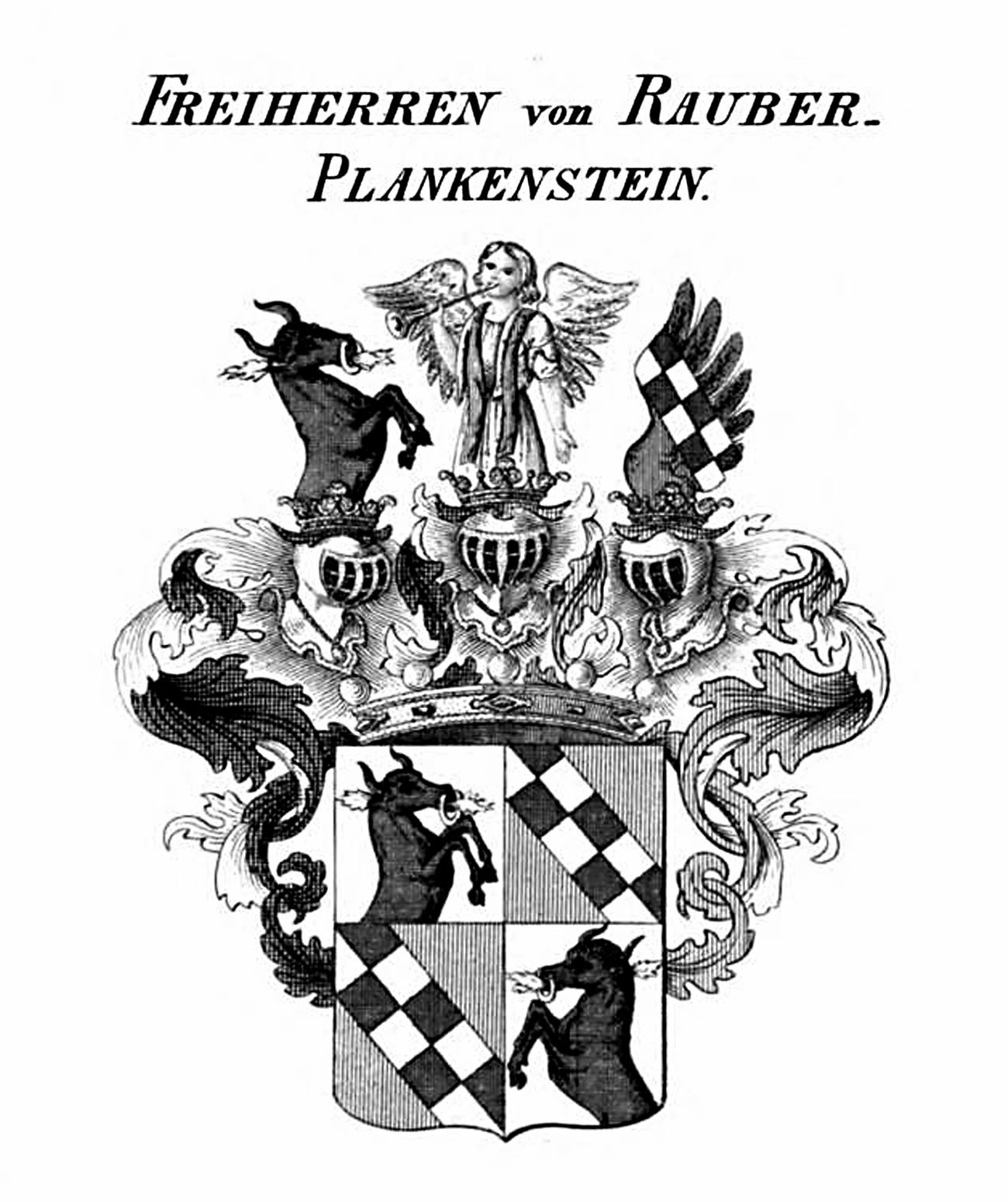 Coat of Arms of Rauber von Plankenstein, Austria